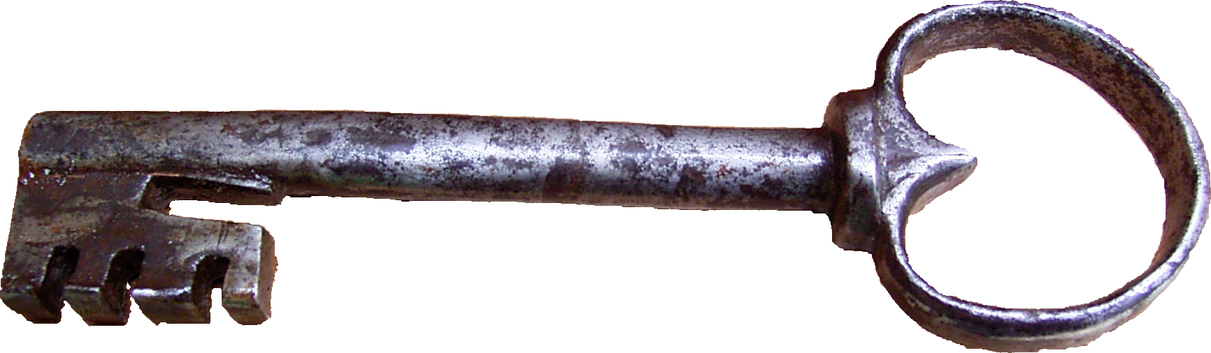 Key of an ancient warded lock